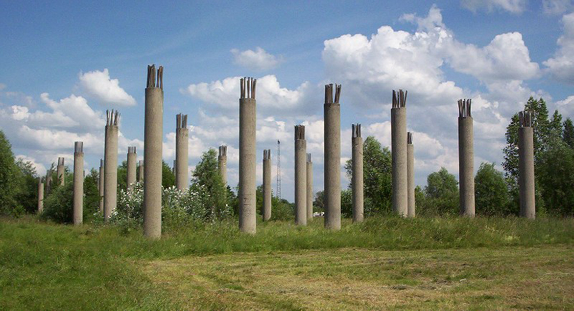 Unfinished bridge near Baranów (Masovia, Poland) in the middle of nowhere. It should have been a part of a planned Olympic Motorway (Olimpijka) but it has never completed. Moreover that should have been built over the northern part of the Central Mainline (CMK) which also has never been built.